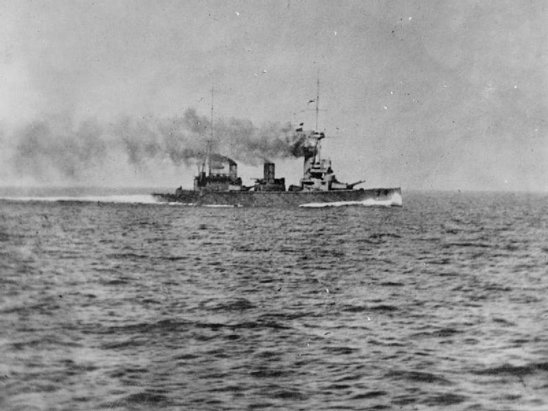 The battlecruiser HMS NEW ZEALAND steaming into action at the Battle of Heligoland Bight.